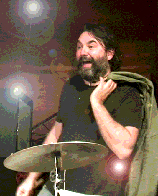 Jeremy Stacey at the 606 Club, Chelsea, UK, gigging with Tony O'Malley. Still from video filmed and edited by, and copyright of, Acabashi (aka Jack Slipper.)